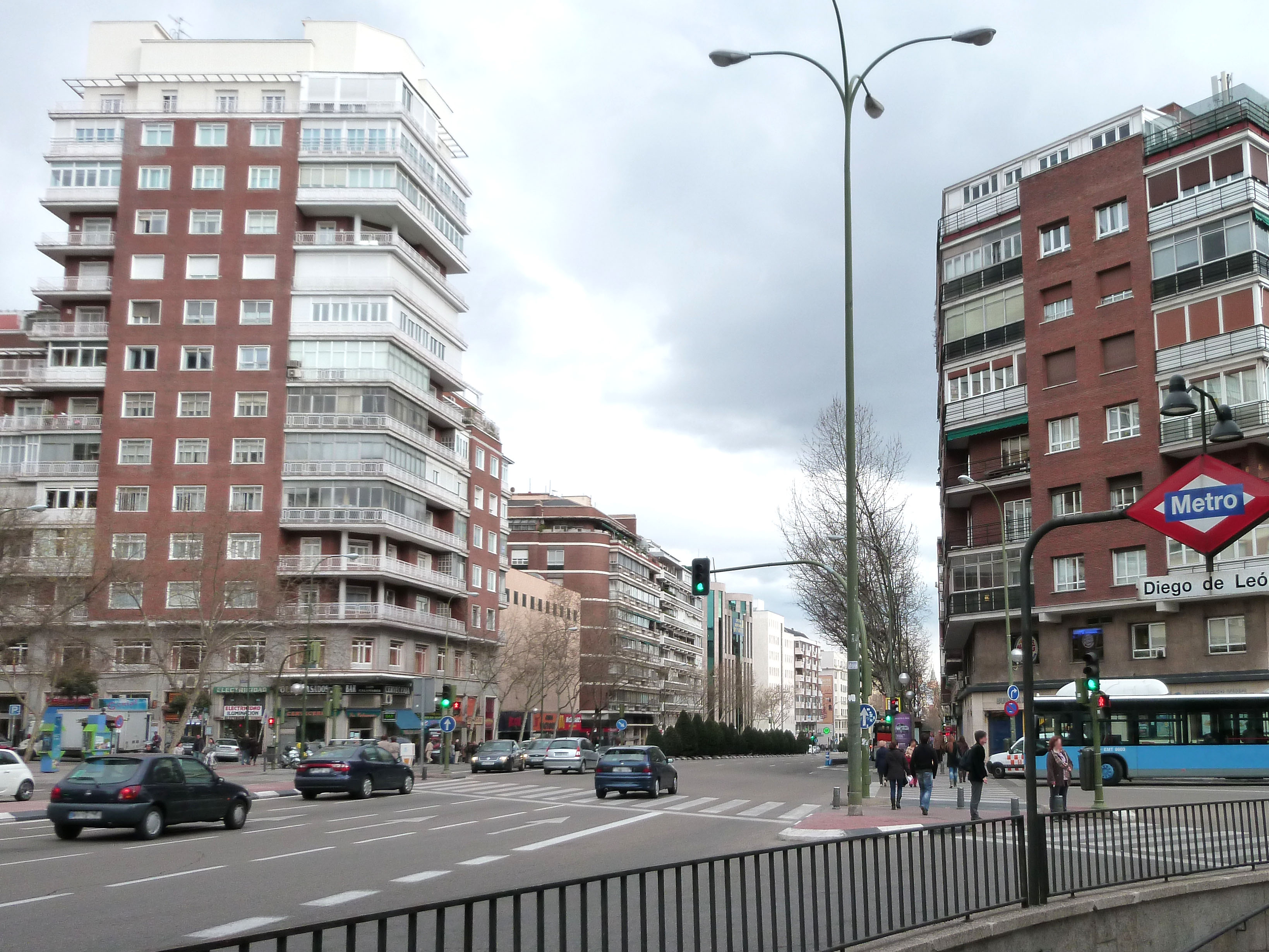 Entrance of Diego de León metro station in Madrid (Spain), at 61 Calle de Francisco Silvela (street, Salamanca district).